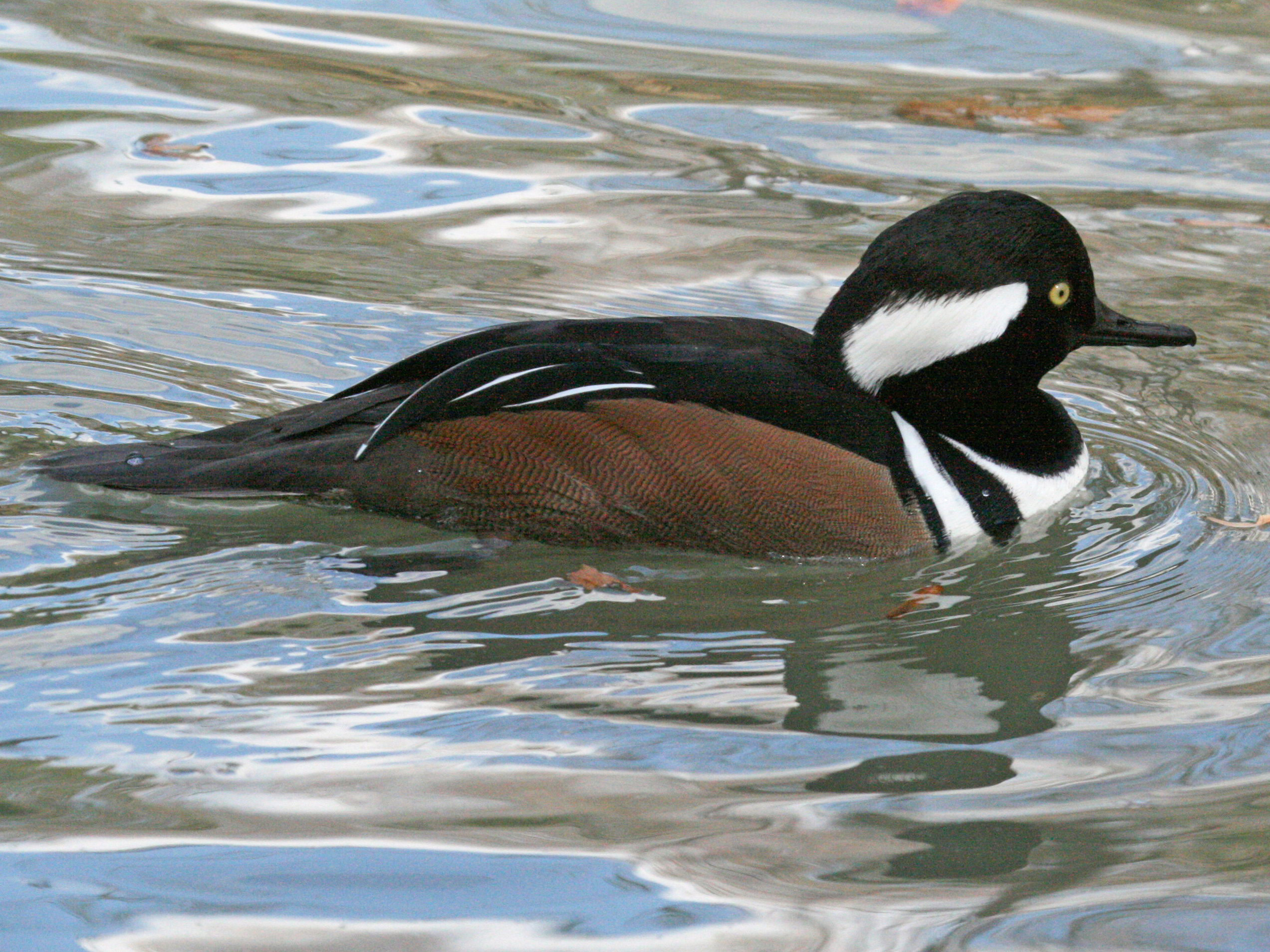 ♂ Hooded Merganser (Lophodytes cucullatus) at Sylvan Heights Waterfowl Park in Scotland Neck, North Carolina.